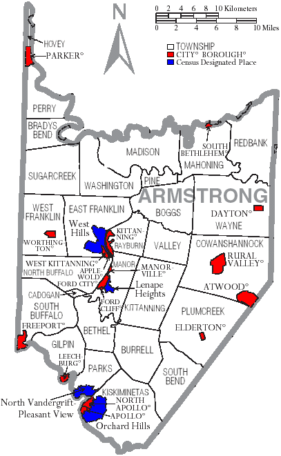 Map of Armstrong County, Pennsylvania, United States with township and municipal boundaries is taken from US Census website [1] and modified by User:Ruhrfisch in April 2006. My modifications licensed under the GNU Free Documentation License. Source: US Census website [2]